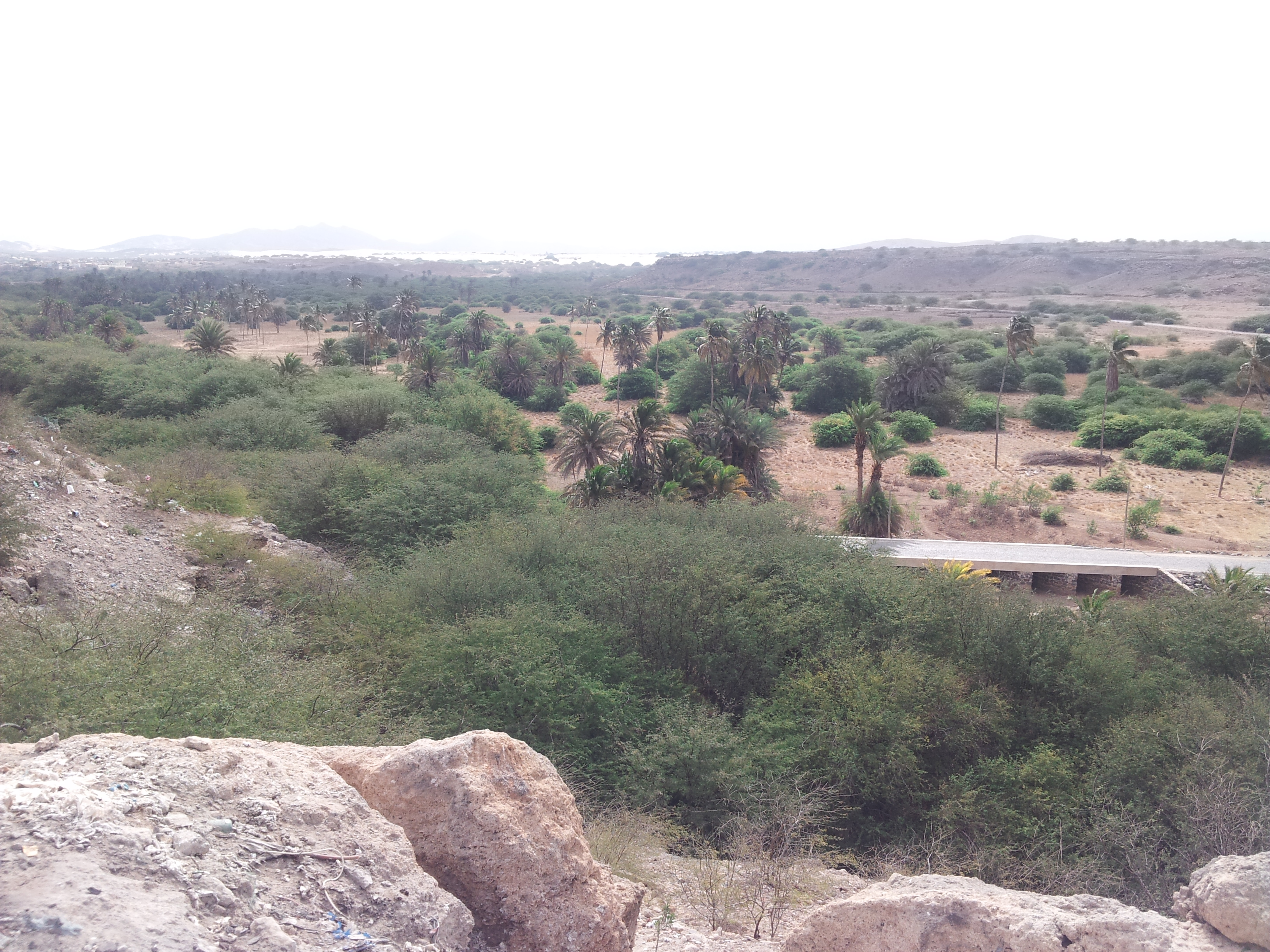 Palmeiral "Ribeira do Rabil" on Boa Vista (Cape Verde)